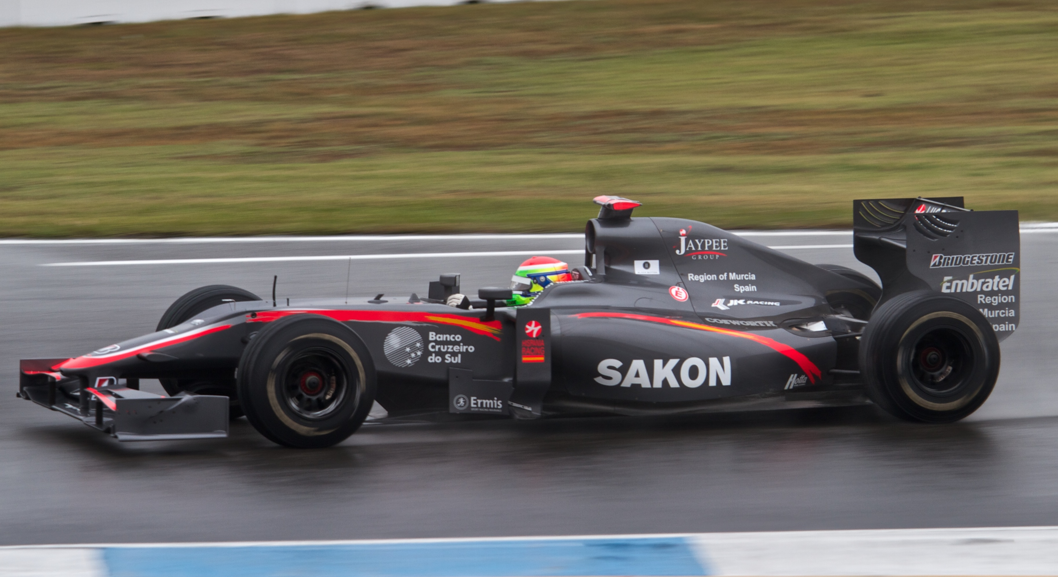 Sakon Yamamoto driving for Hispania Racing at the 2010 German Grand Prix.